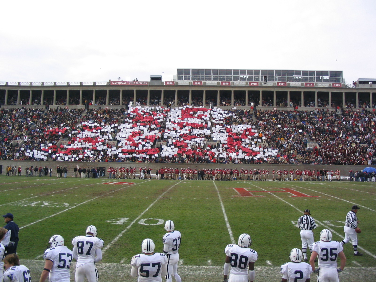 The scene of the "We Suck" placard prank during the 2004 Harvard-Yale annual football game.